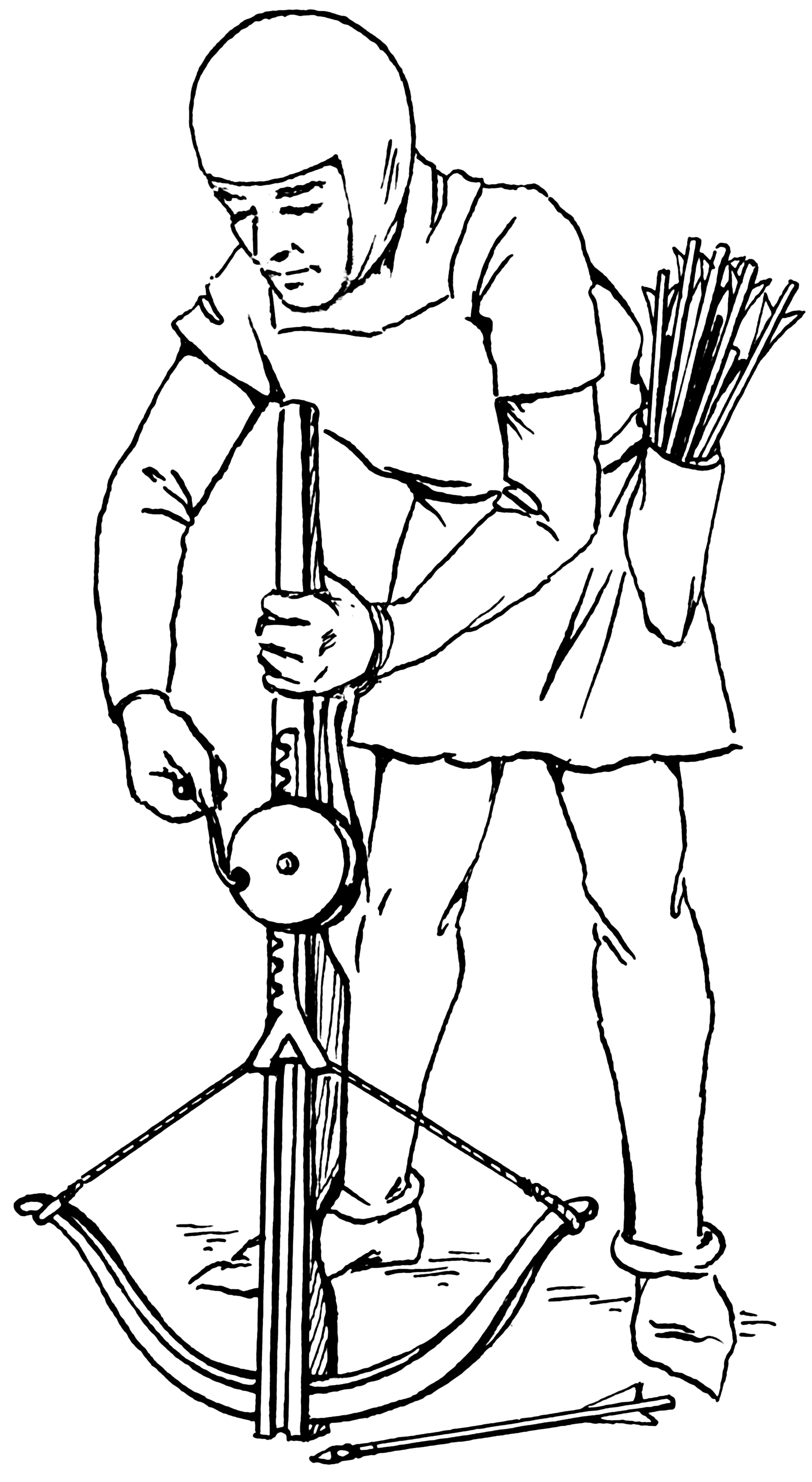 Line art drawing of a arbalest.